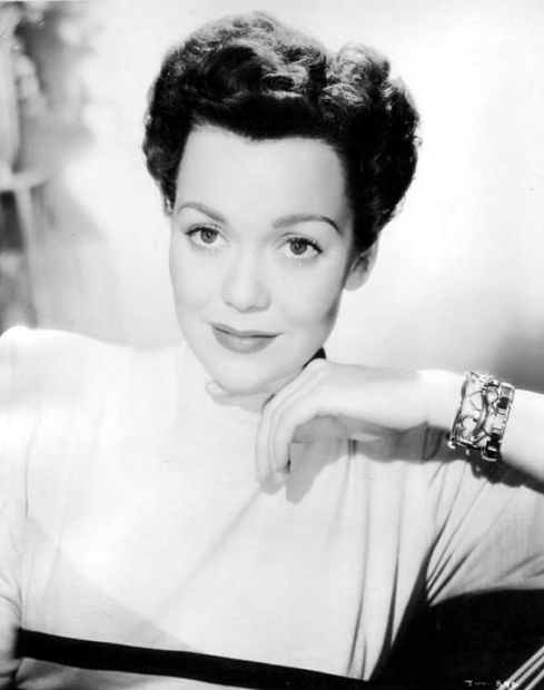 Promotional photograph of actor Jane Wyman (1947)